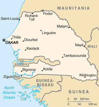 senegal map